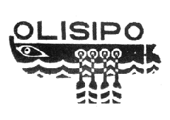 Fernando Pessoa Publishing House «Olisipo», 1922-1923.